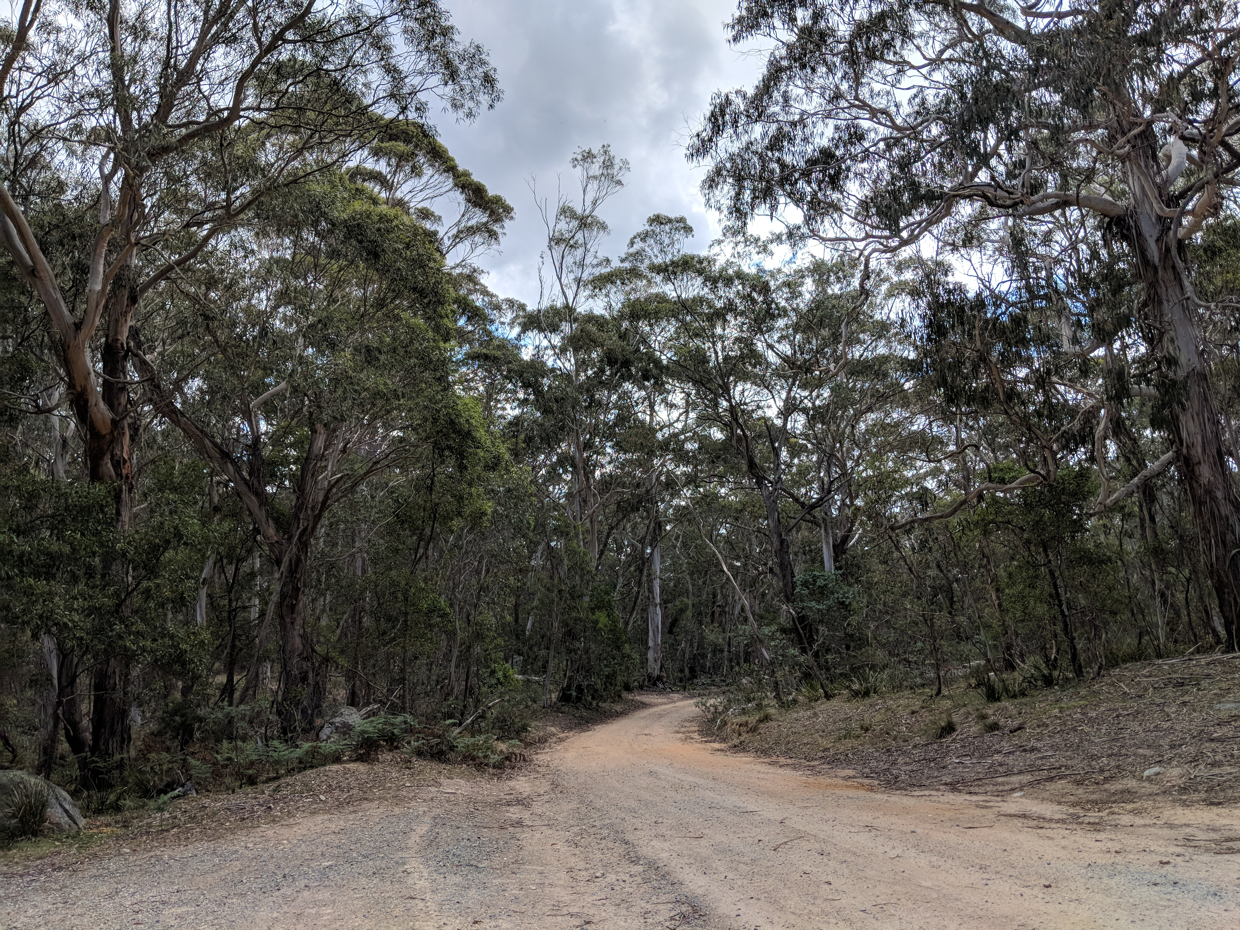 Forbes Creek Road at Forbes Creek and Palerang, New South Wales